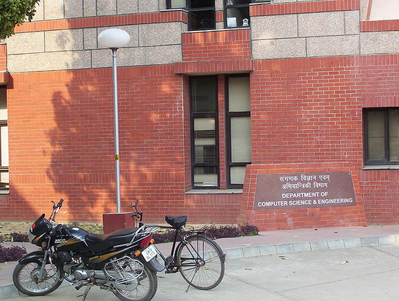 The entrance of the Computer Science department of IIT Kanpur.